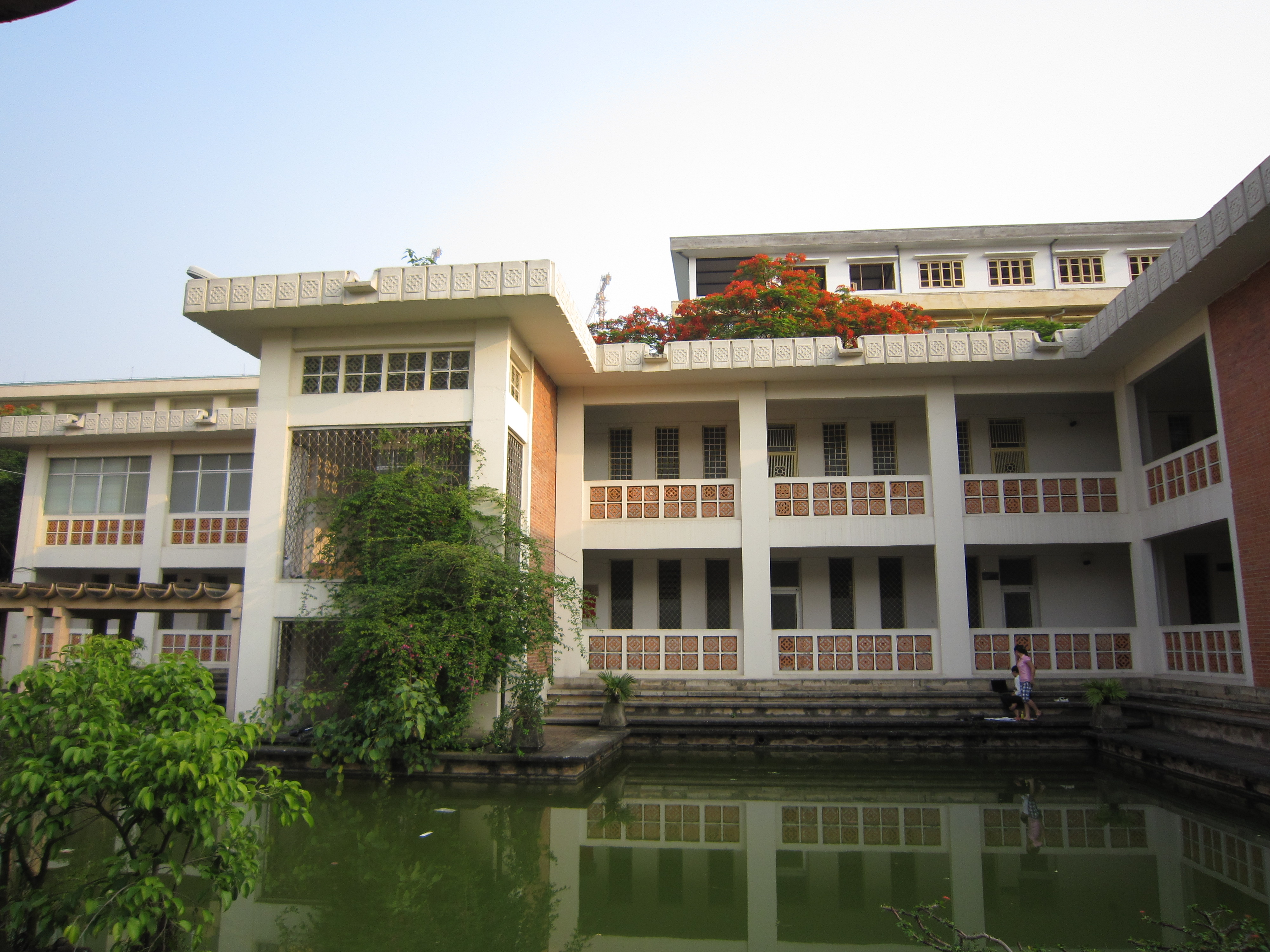 University of Languages and International Studies